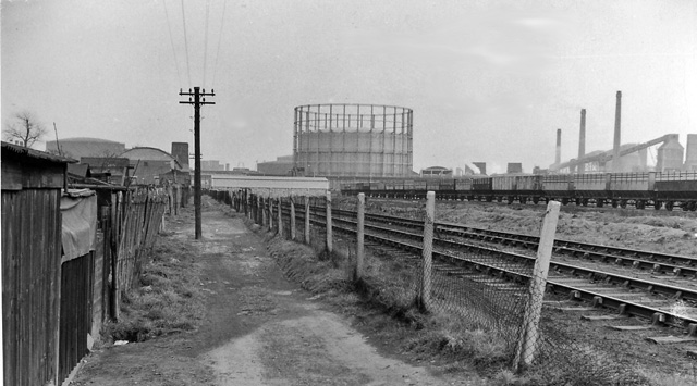 Site of Beckton Station, near to Beckton, Newham, Great Britain. View eastward, towards former buffer-stops. Had been terminus of branch from Custom House (on Stratford - North Woolwich line). Station badly damaged in the great Blitz of 7/9/40 and branch closed for passengers 29/12/40, but the line continued to serve the vast Beckton Gas Works until they were finally run down in February 1971.